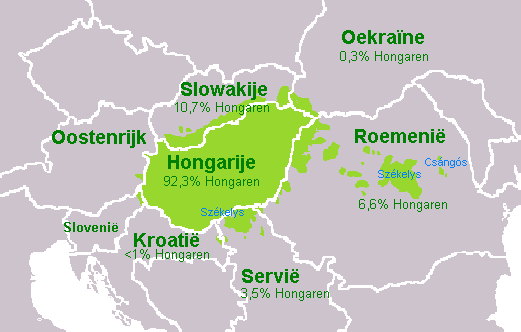 Regions with a Hungarian-speaking majority around today's Hungary. (only approximate map)